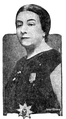 Portrait-photograph of Romanian feminist Alexandrina Gr. Cantacuzino.